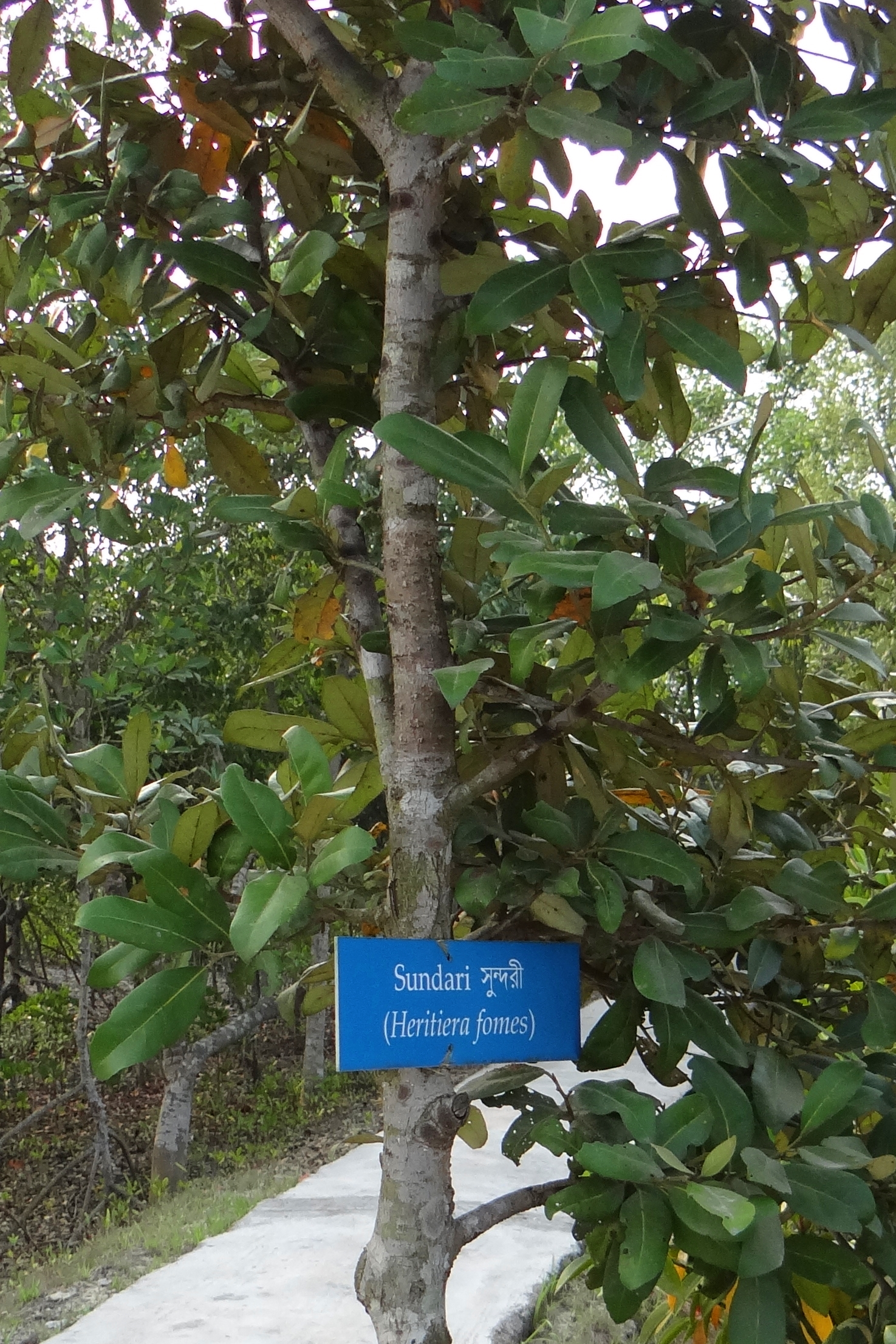 "Sundari "(Heritiera fomes) or "Shundori" in Bengali is a mangrove tree found in the Sundarbans forests of India and Bangladesh.